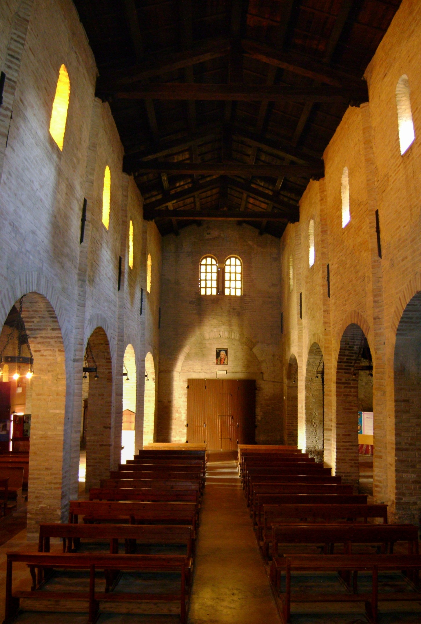 The interior of the church of San Pietro in Trento, Ravenna, province of Ravenna, Emilia-Romagna